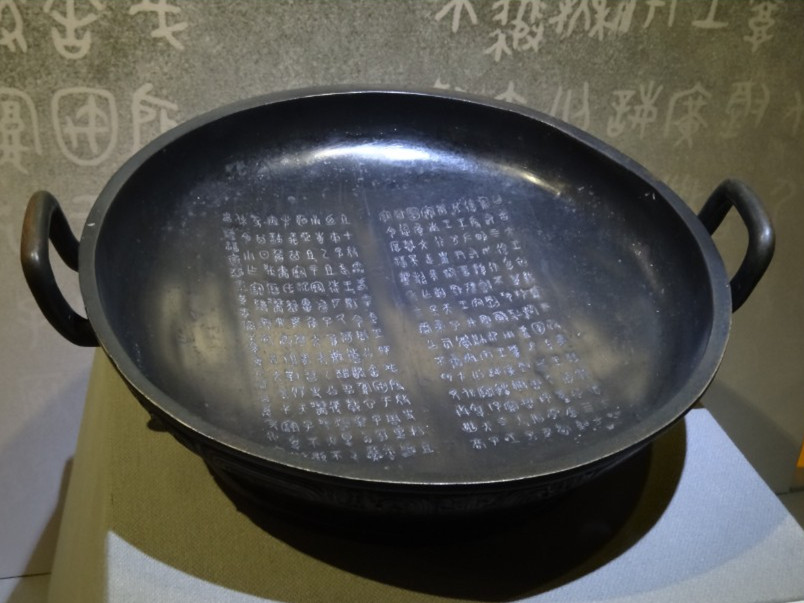 Qiang pan, Western Zhou dynasty. 16.8 cm high, 47.2 cm in diameter, weight 12.5kg. Unearthed 1976 in Fufeng County, Zhuangbai Village. Found in the 1st hoard, now located in the Baoji Bronze Ware Museum.